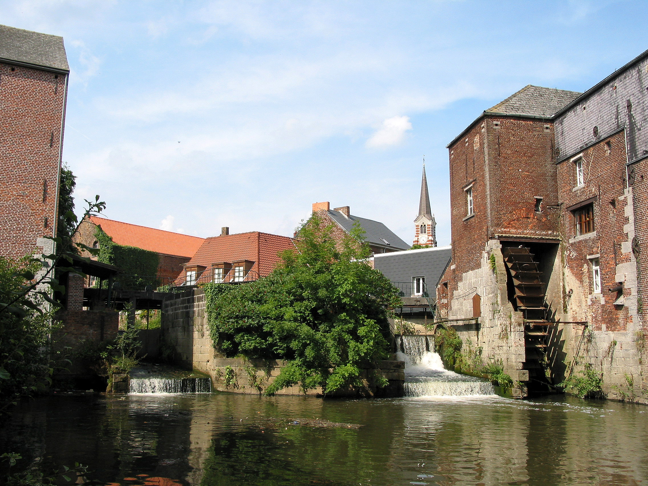 Rebecq (Belgium), the "d'Arenberg" Watermills (XIXth century) on the Senne river.